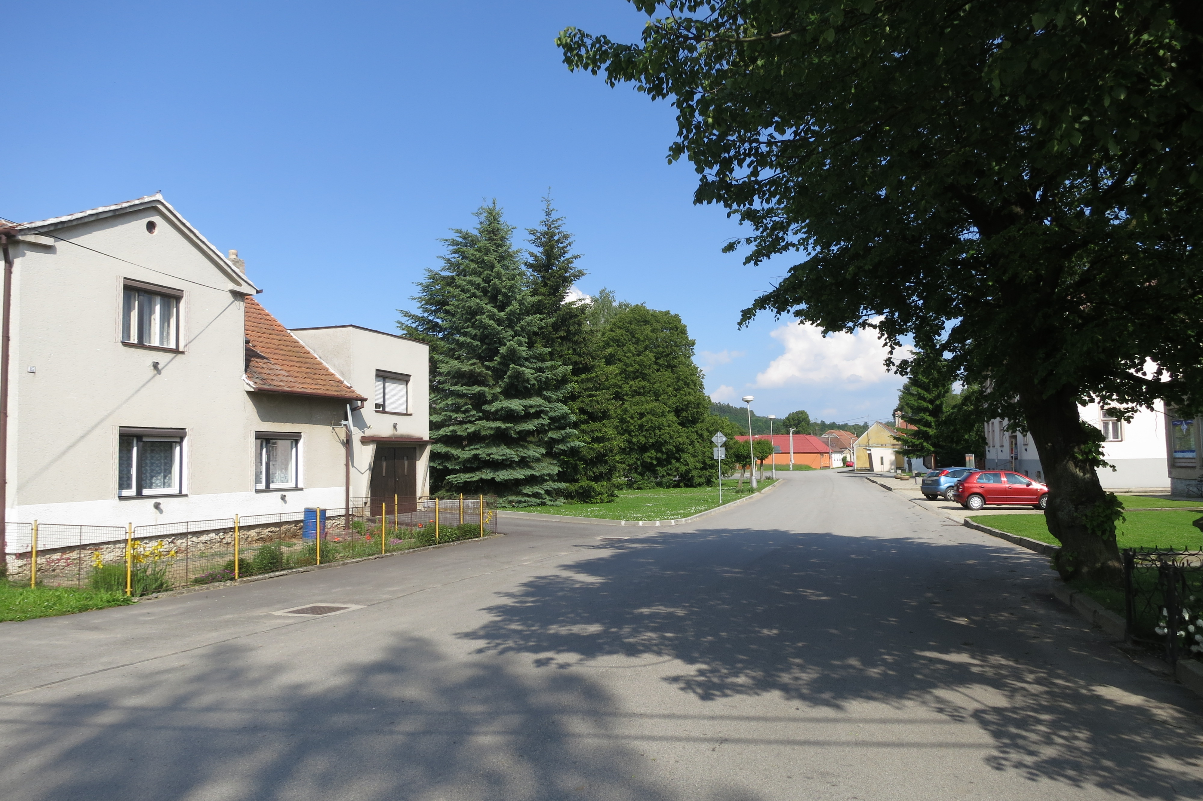 Center of Budkov, Třebíč Distric.